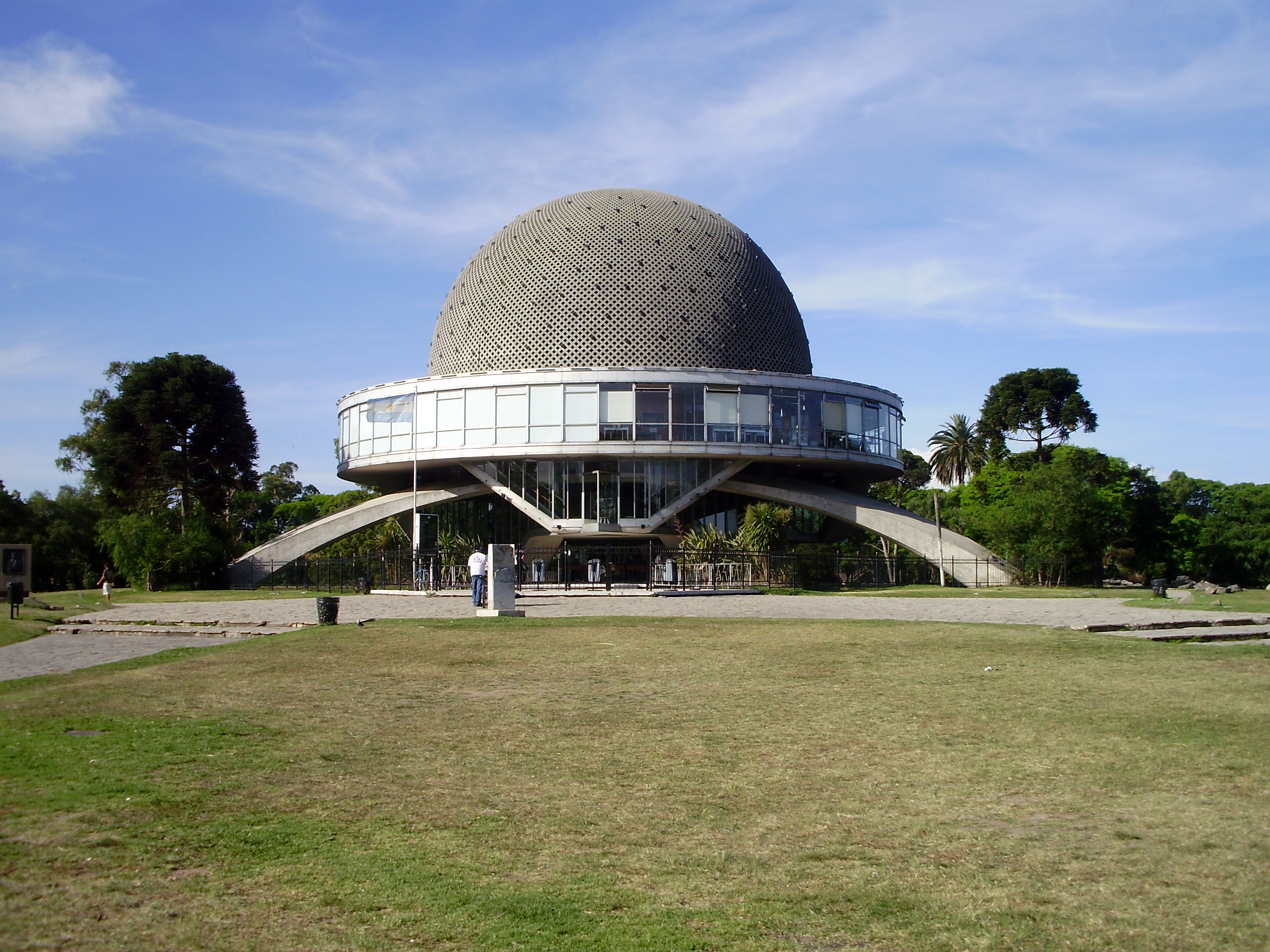 Galileo Galilei planetarium